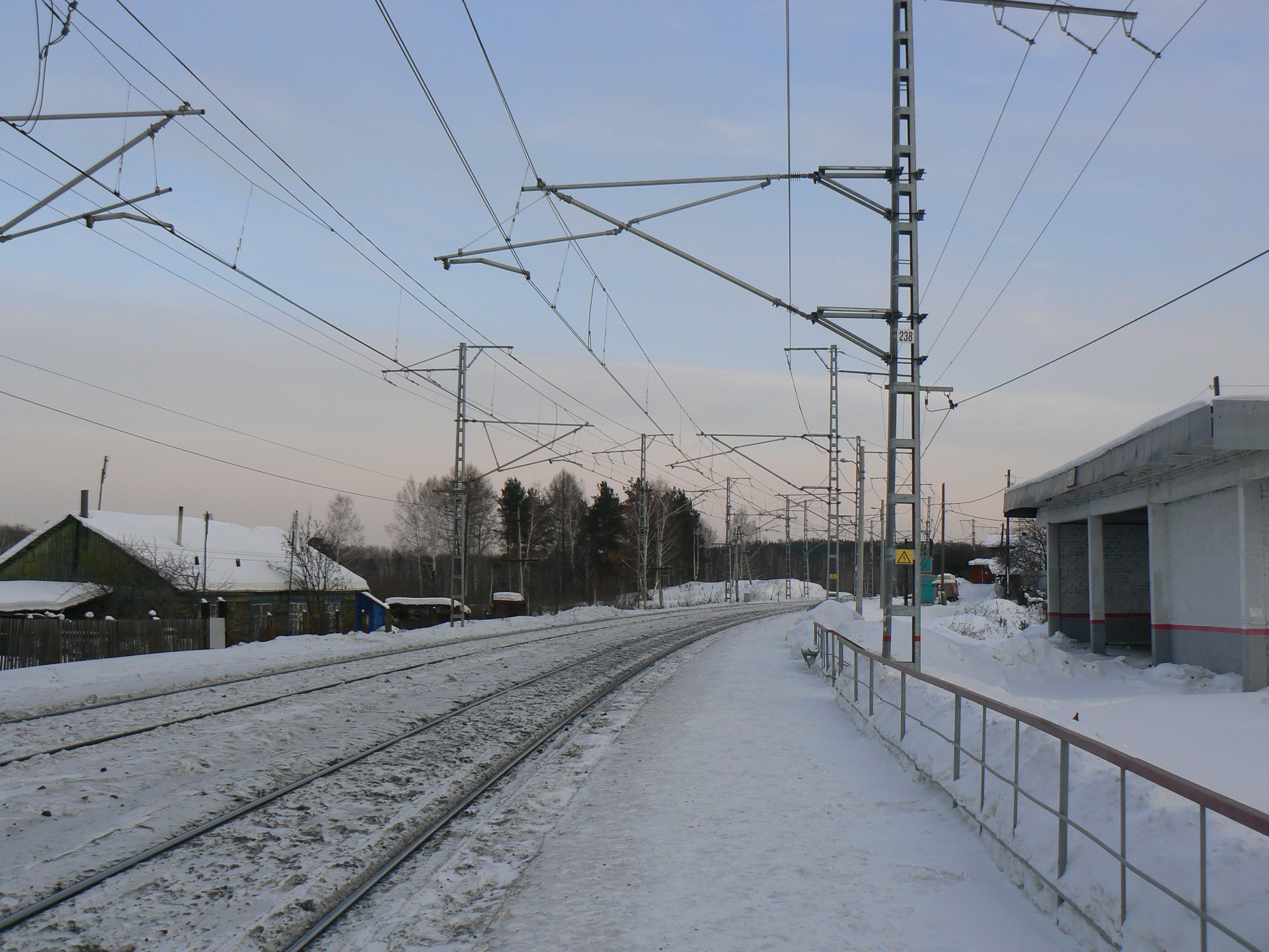 станция Гать, вид в сторону Екатеринбурга